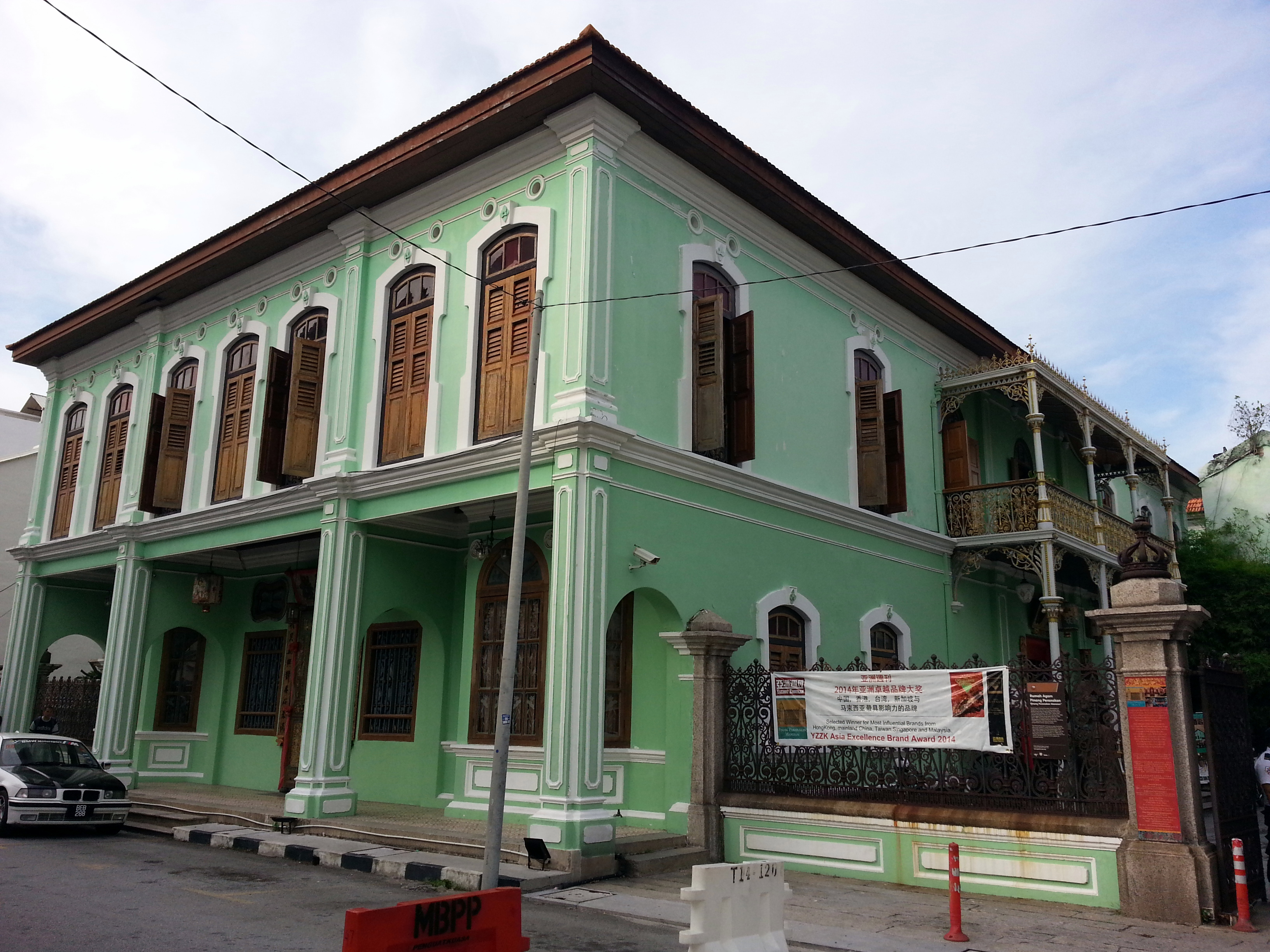 Pinang Peranakan Mansion at 29 Queen Street, George Town, Penang